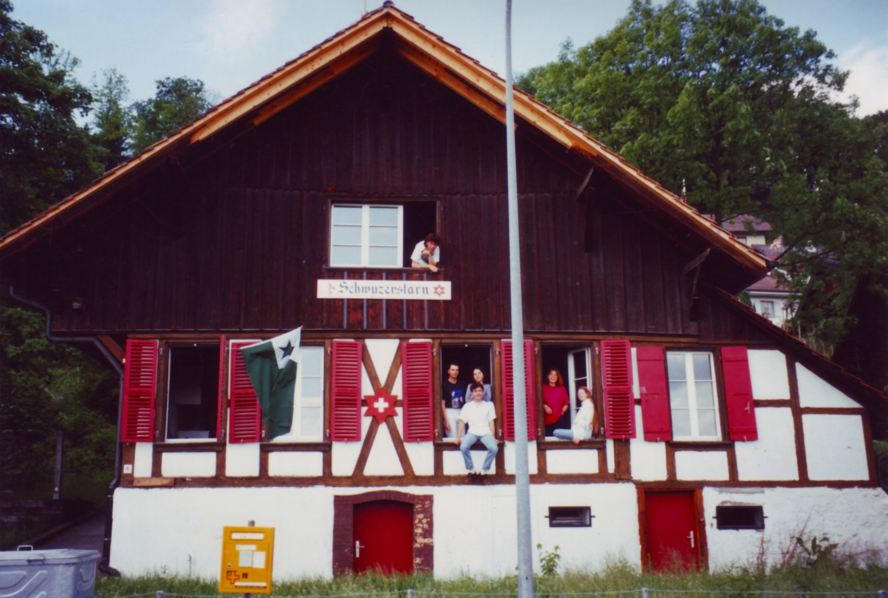 six youngsters in a weekend meeting of the Swiss Esperanto Youth in May 1993, in a "typically swiss" farm house